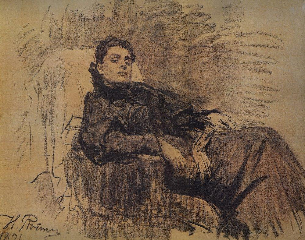 Portrait of actress Eleonora Duse. Charcoal on canvas. 108 × 139 cm. The State Tretyakov Gallery, Moscow.